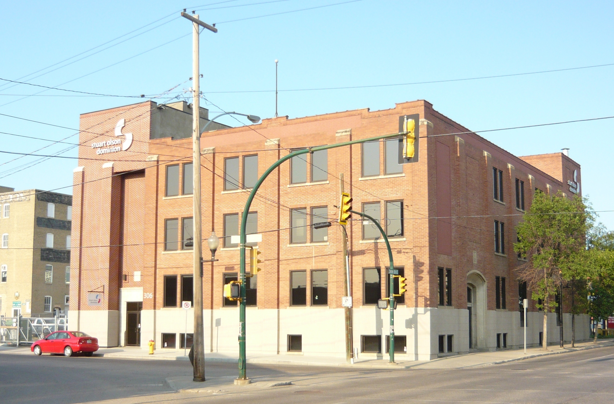 Saskatoon Cartage and Warehouse Company (1928), 88 24th Street East at Ontario Avenue, Saskatoon, Saskatchewan, Canada. Later known as the MacCosham Building, then Central Purchasing Department (City of Saskatoon), and then Arthur Cook Building. Now occupied by Stuart Olson Dominion Construction. Architect of original structure: David Webster.